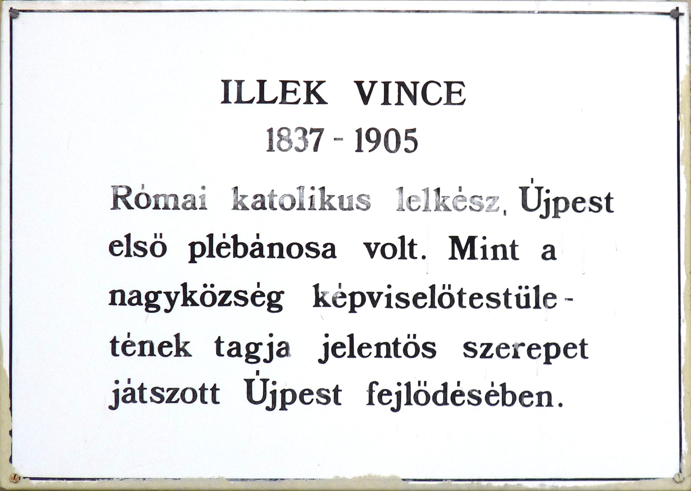 Vince Illek commemorative plaque in Budapest Distric IV, Illek Vince Street No 18.